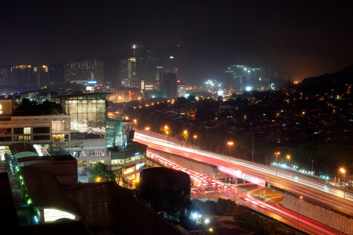 Long exposure of E11 highway and surrounding cityscape - Bandar Utama, Malaysia.